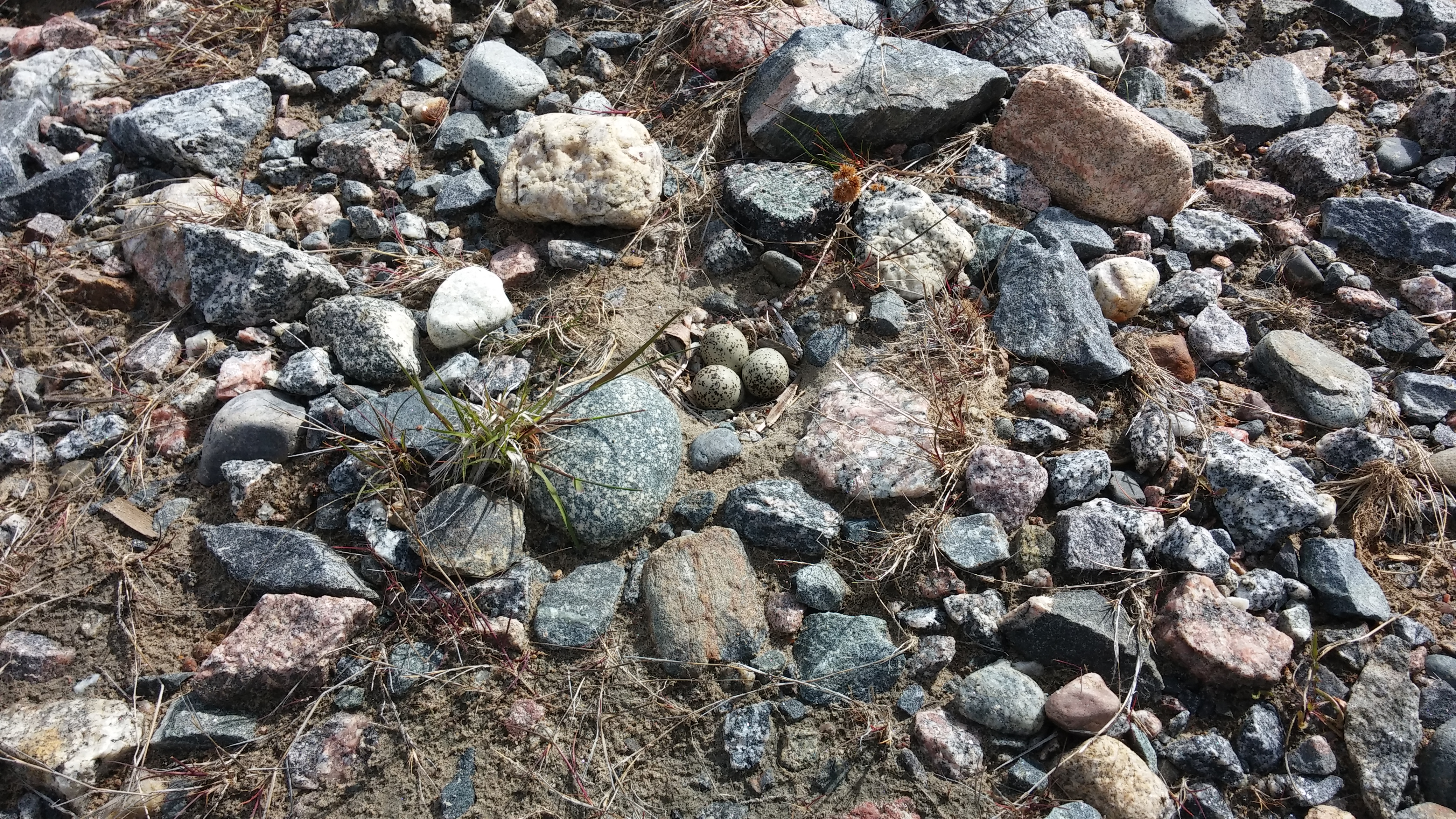 Charadrius hiaticula nest with three eggs. Piteå, Sweden, 13.6.2015